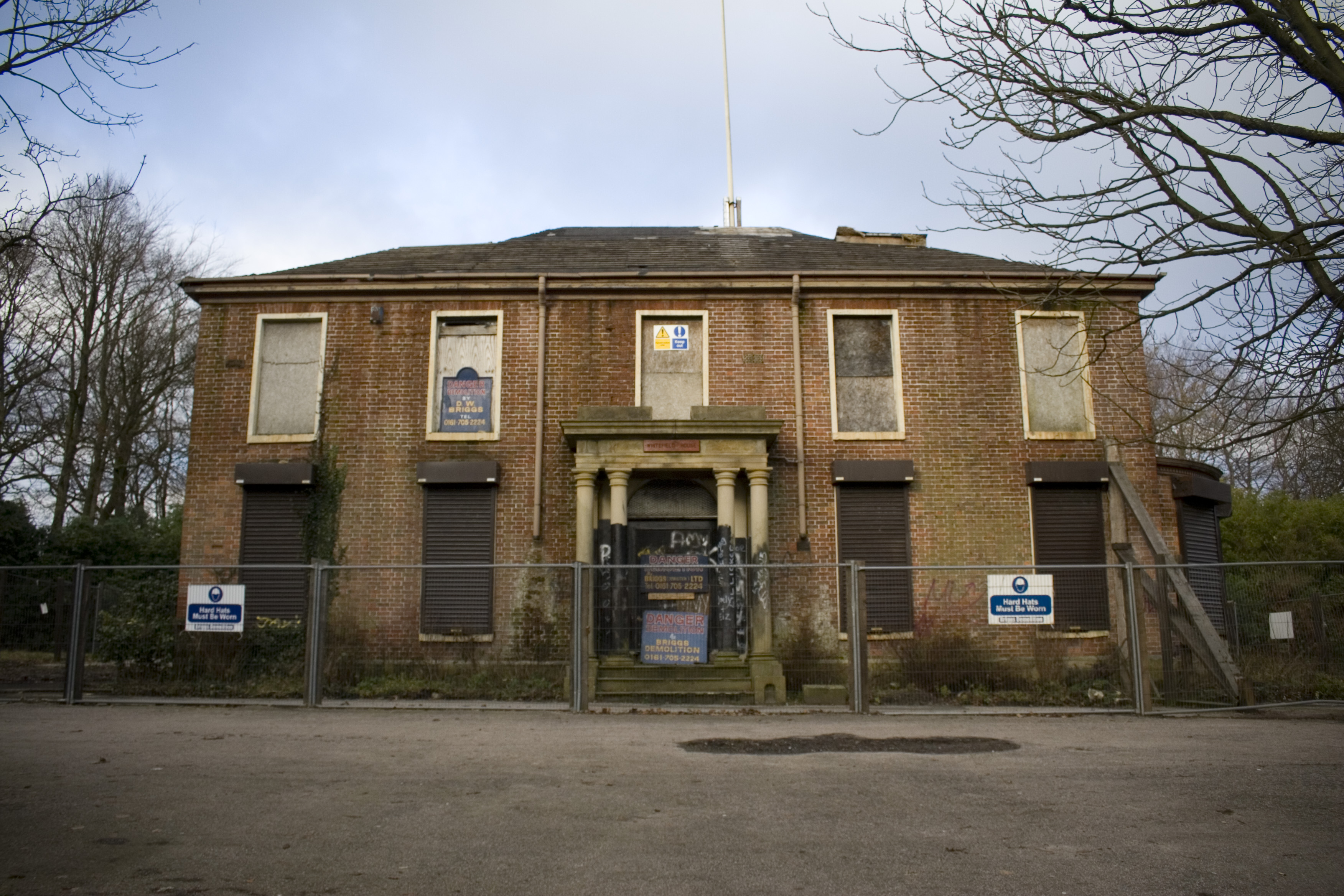 The dilapidated former Whitefield Town Hall, in Whitefield, Greater Manchester, England.